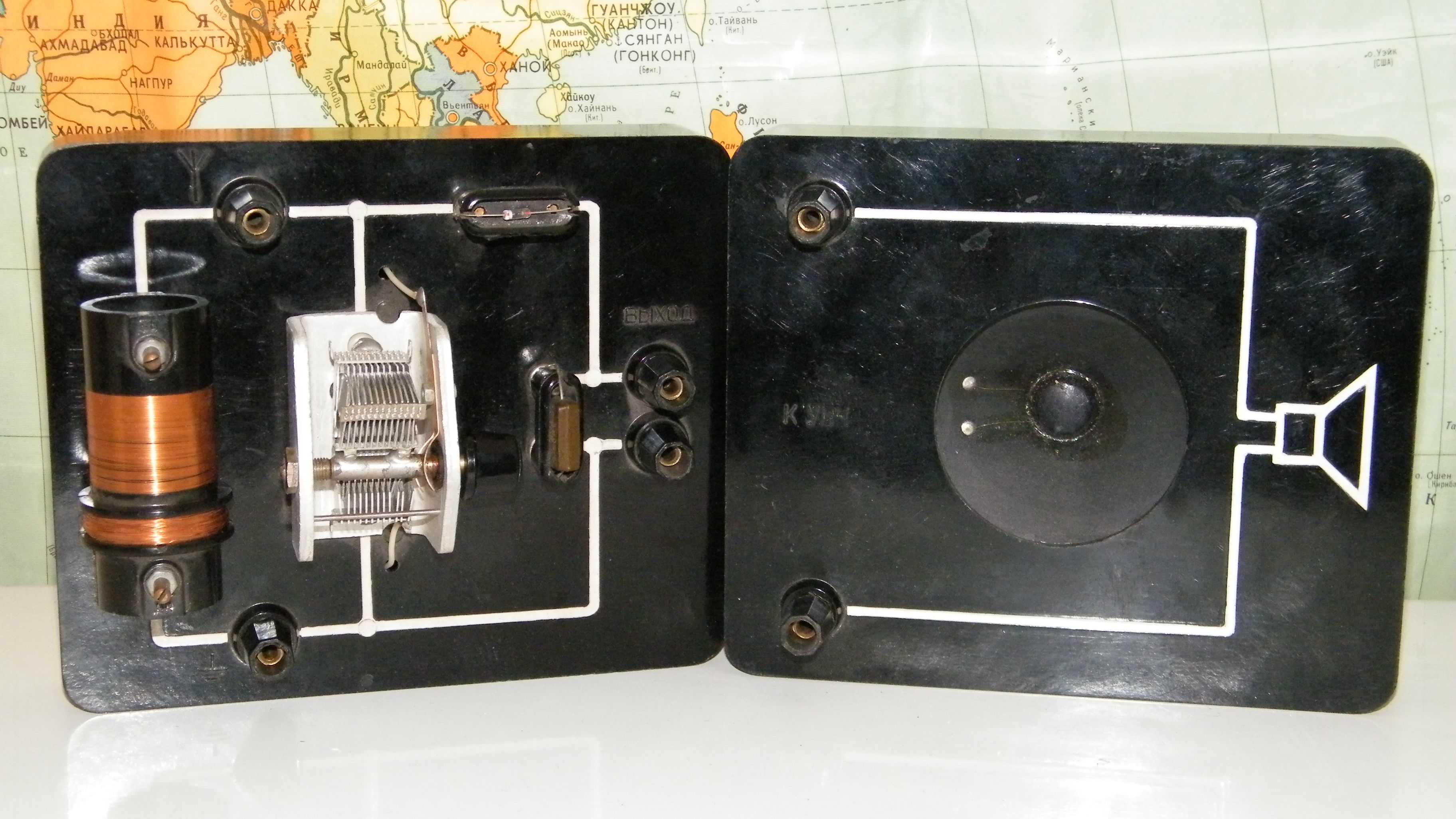 Crystal radio as school visual aid device. USSR, 1960s.